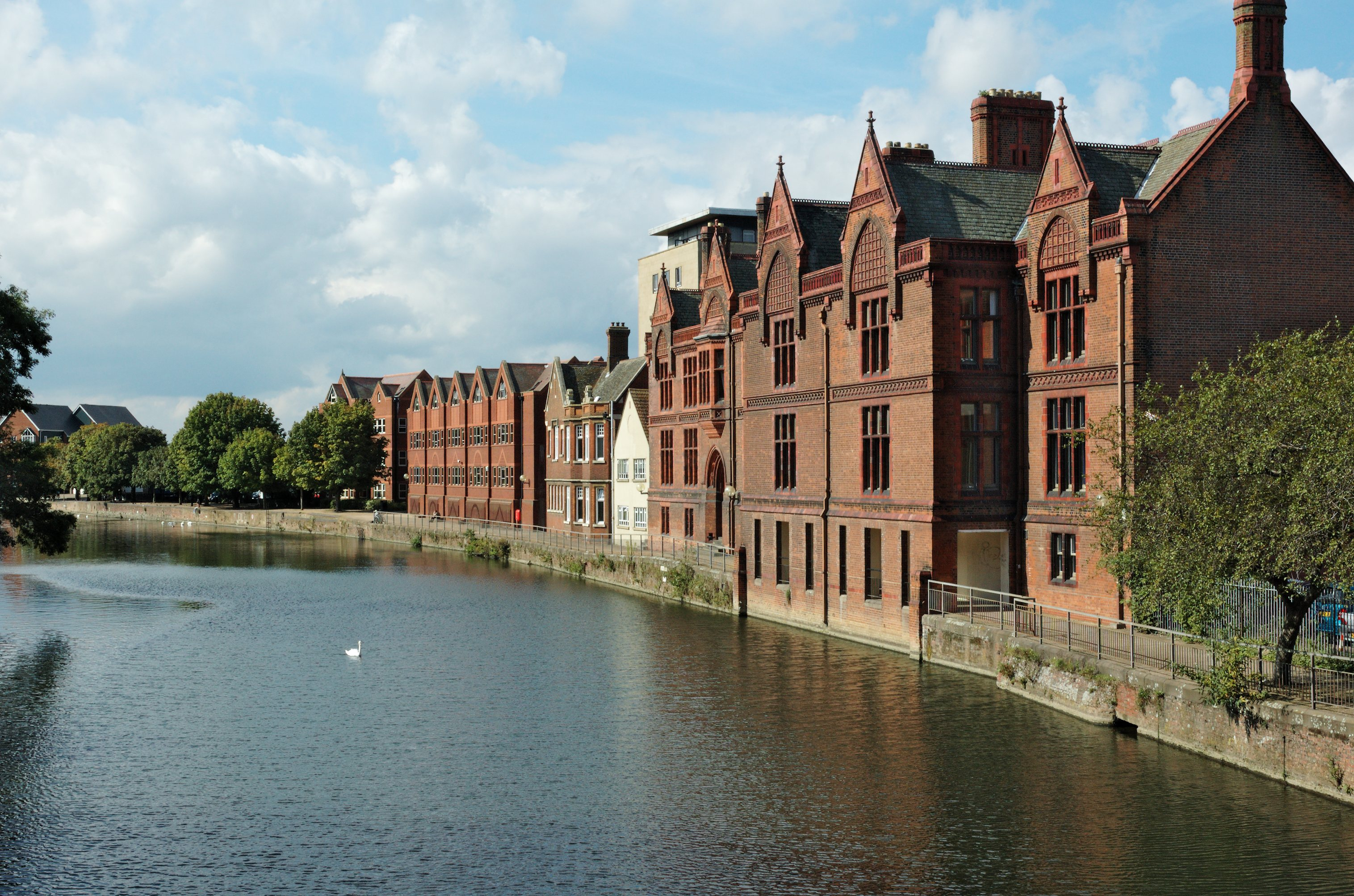 Shire Hall on the River Great Ouse, Bedford.